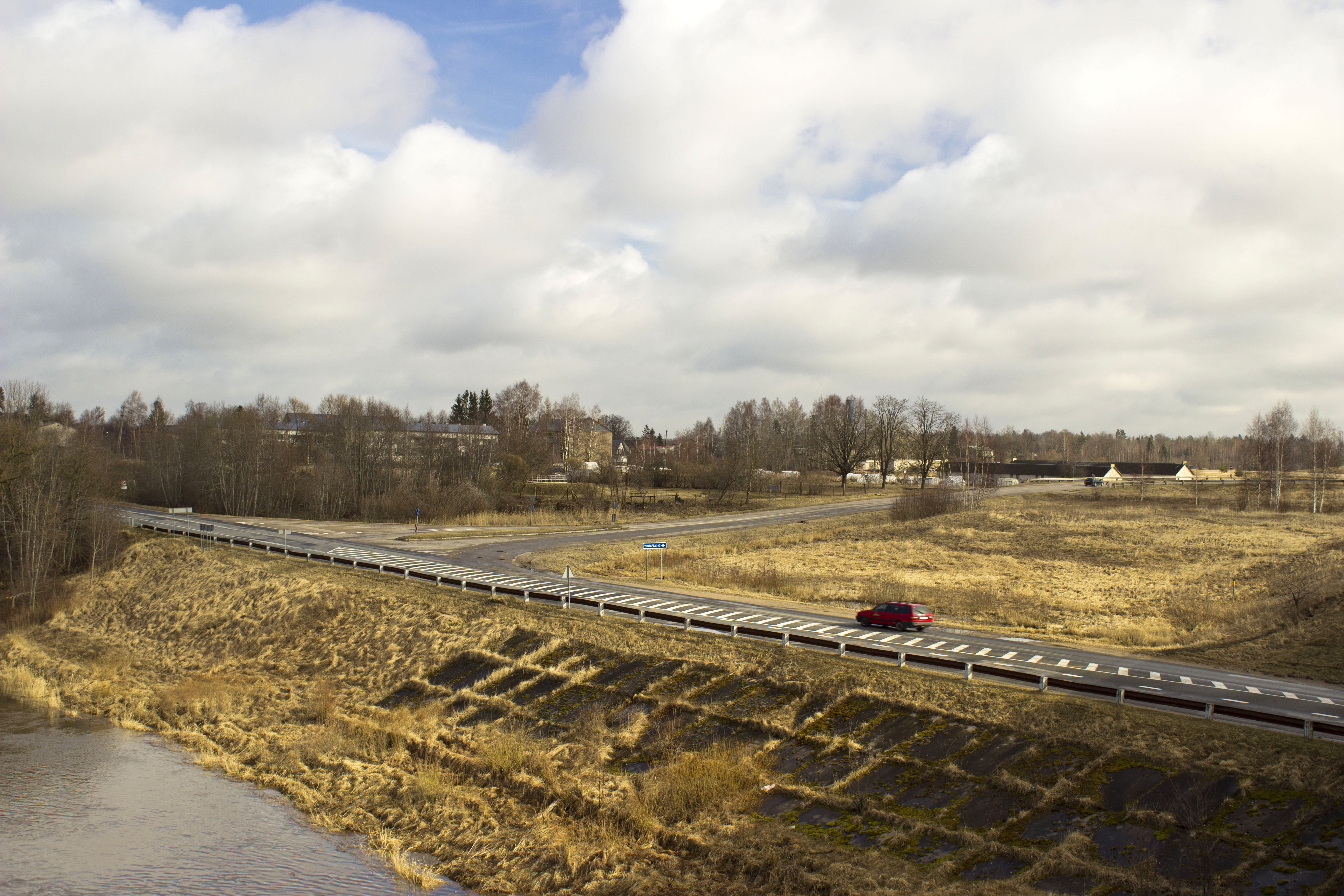 the road